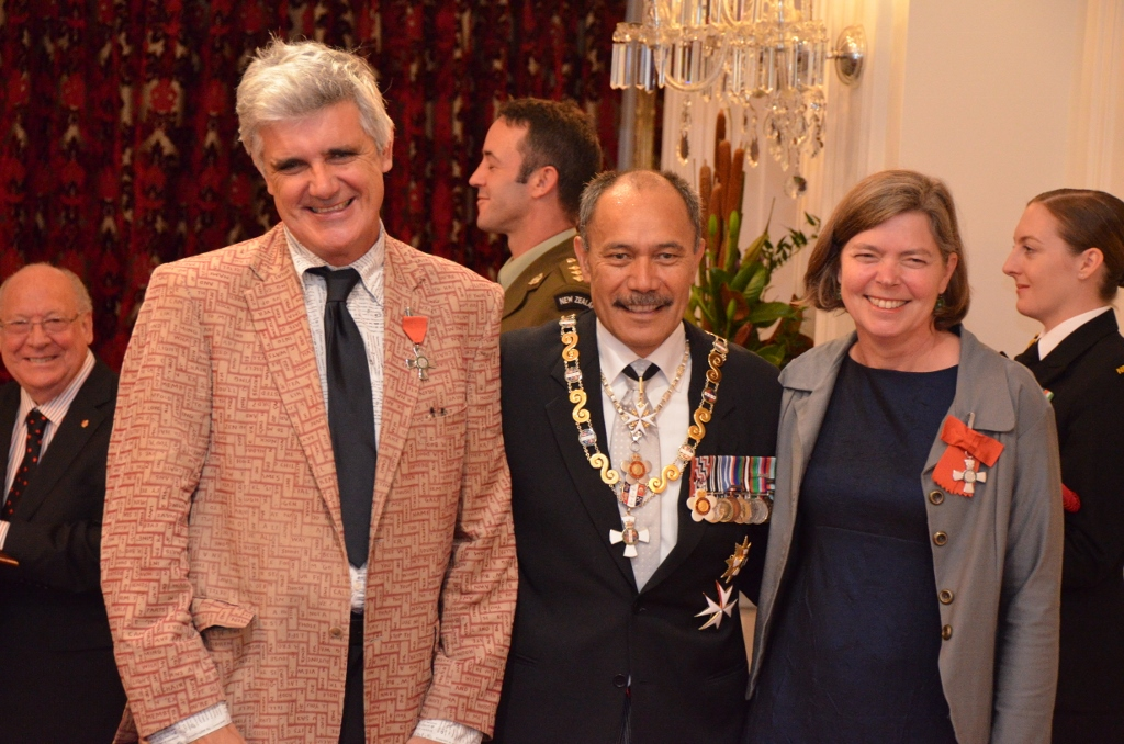 Gregory O'Brien (left) and Jenny Bornholdt, after their investitures as Members of the New Zealand Order of Merit, by the governor-general, Sir Jerry Mateparae, on 18 March 2014